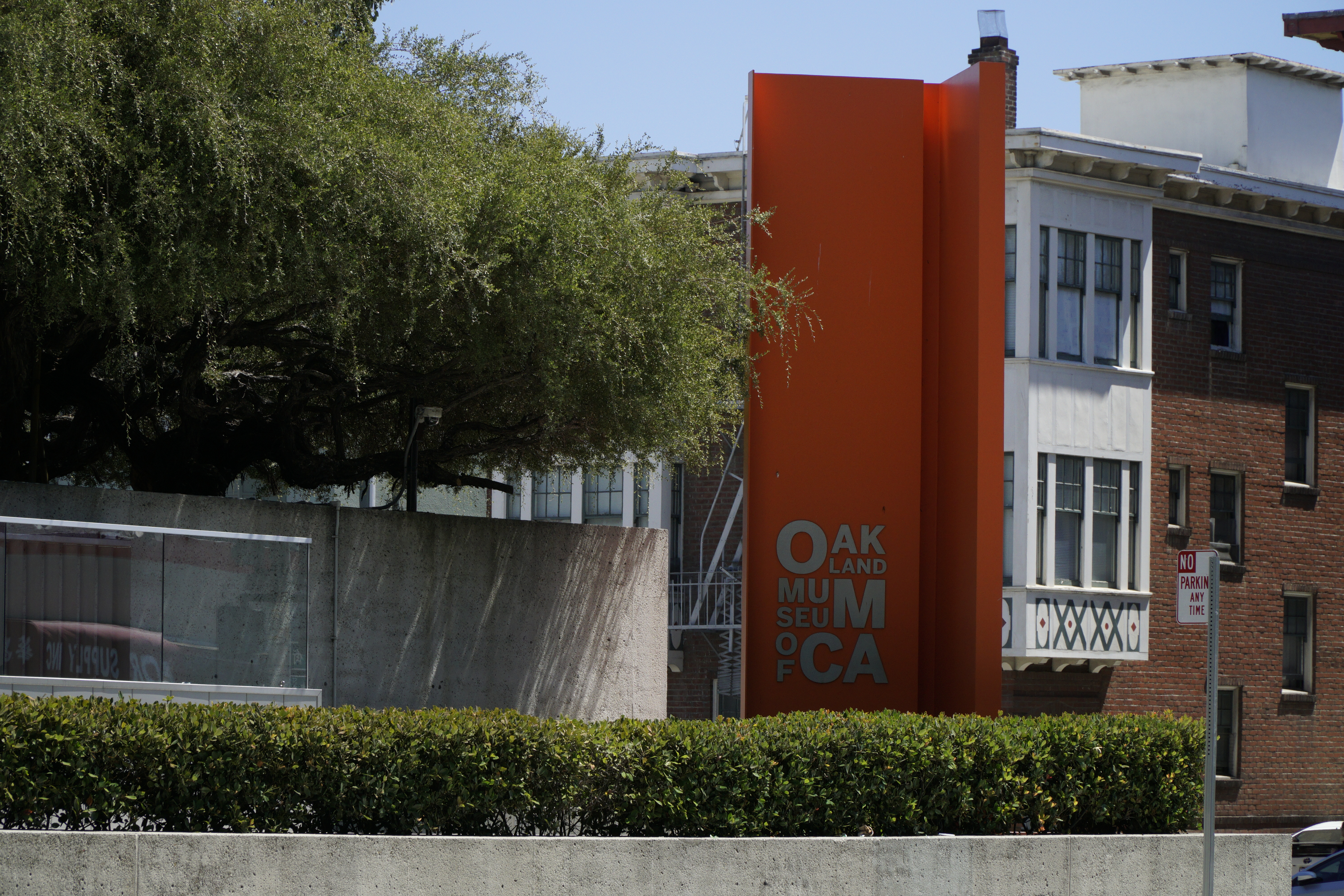 Sign outside the Oakland Museum of California with its stylized logo